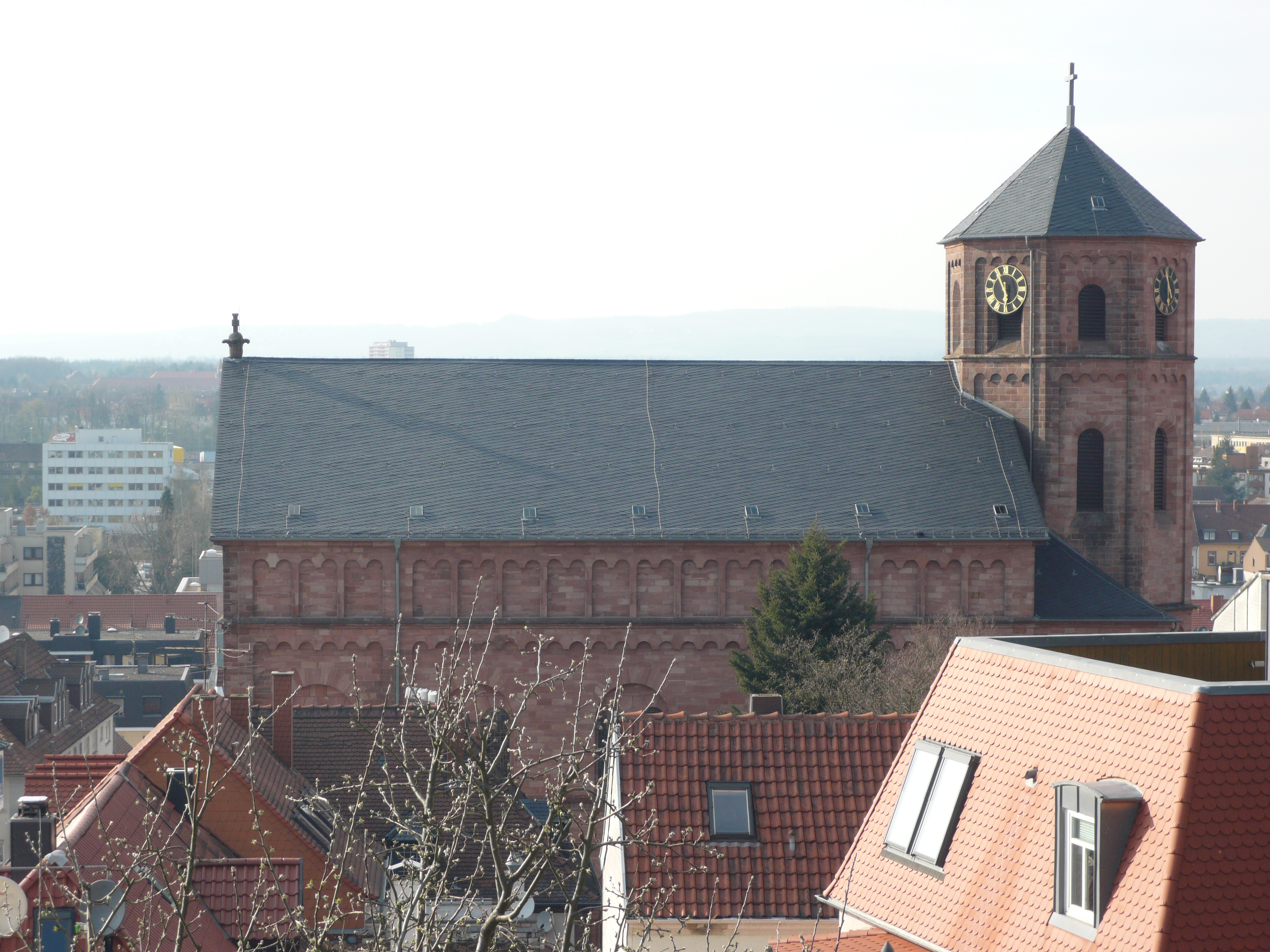 Church StMichael at Homburg, exterior